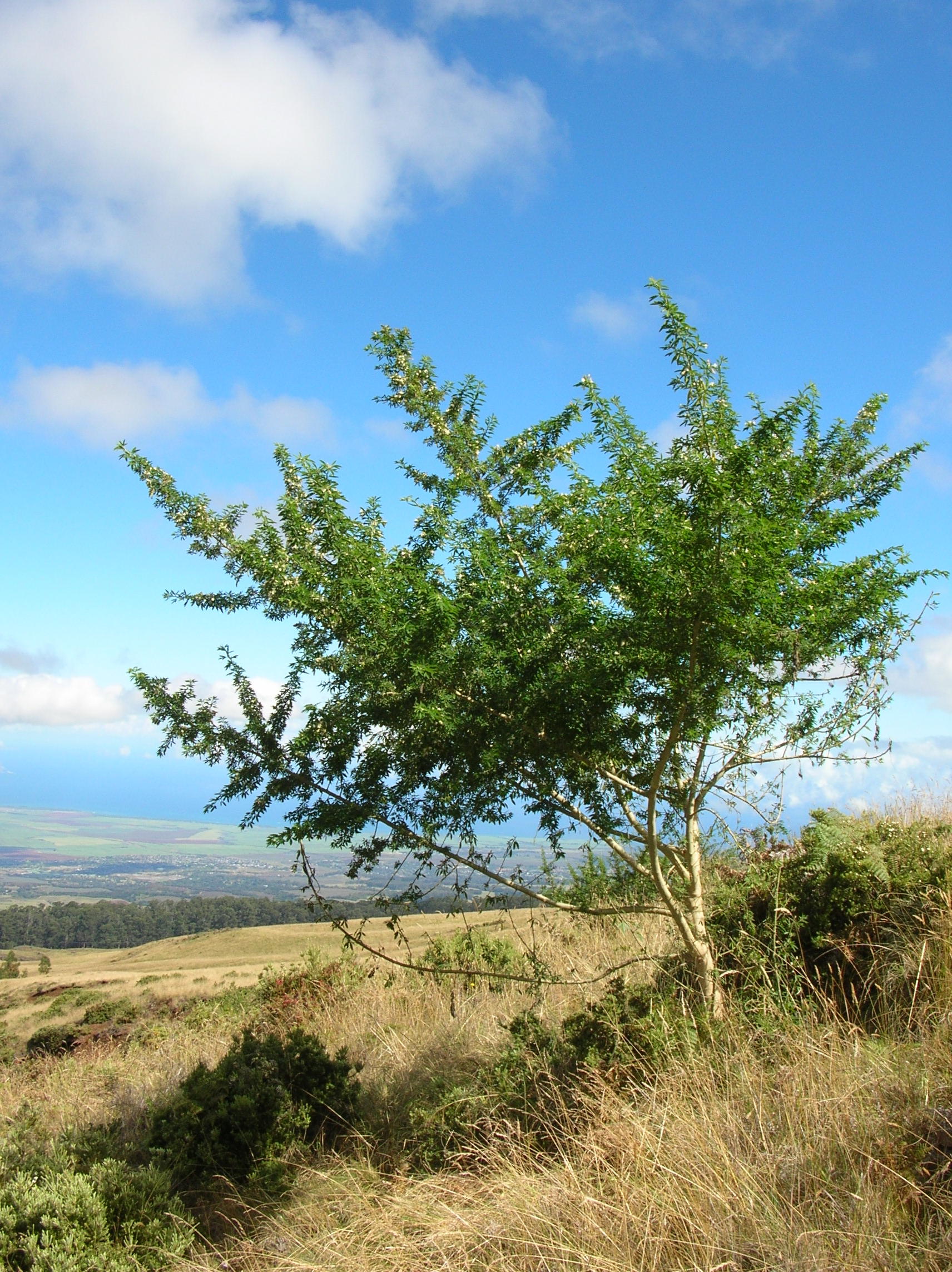 Cytisus palmensis (habit). Location: Maui, Pohakuokala Gulch